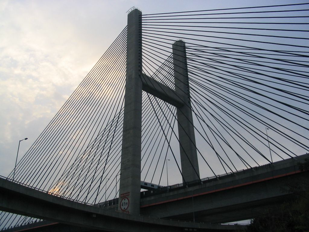 汲水門大橋 Kap Shui Mun Bridge view from Man Wan